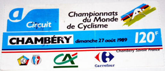 Ticket of the 1989 UCI Road World Championships in Chambery